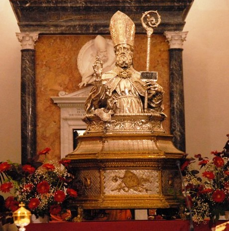 Chapel and stayue of St. Blaise in Maratea.